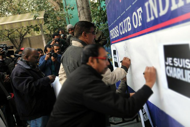 Indian Cartoonist Shekhar Gurera along with his fellow cartoonists protested and expressed solidarity with victims of attack on a Paris-based media house "Charlie Hebdo" by drawing their creations in New Delhi, on Jan09,2015 at Press Club of India, New Delhi